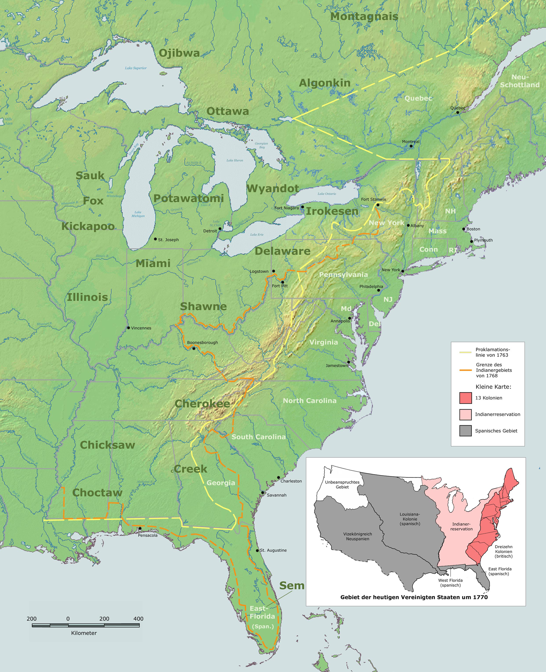 Map of Proclamation Line of 1763 and Indian Boundary Line of 1768 (German version).